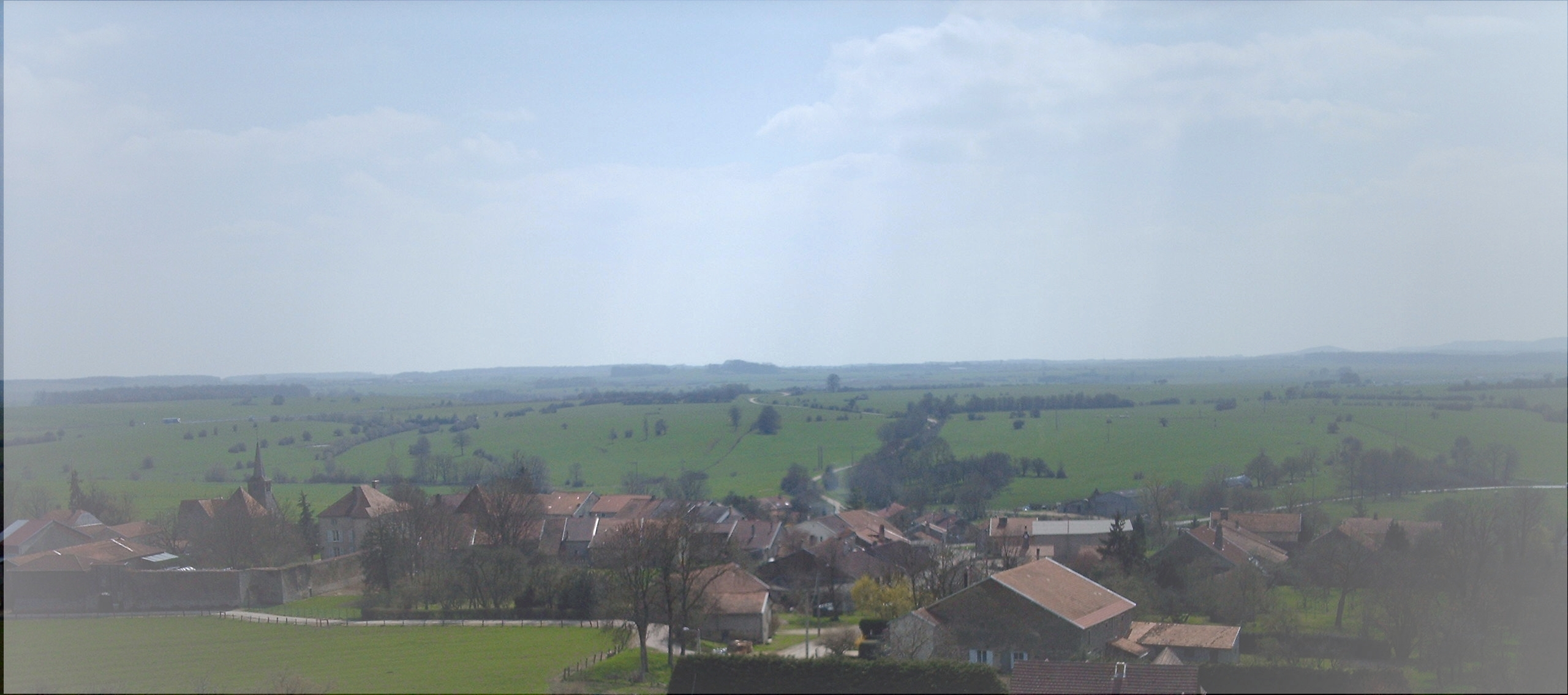 Photo of Choiseul, a small village in France